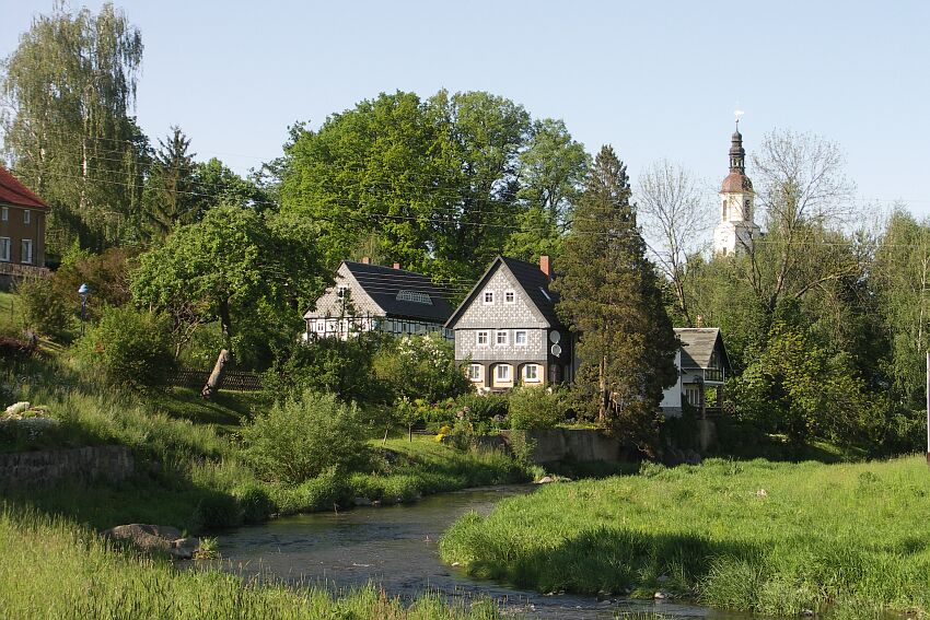 Hainewalde, Saxony, Germany